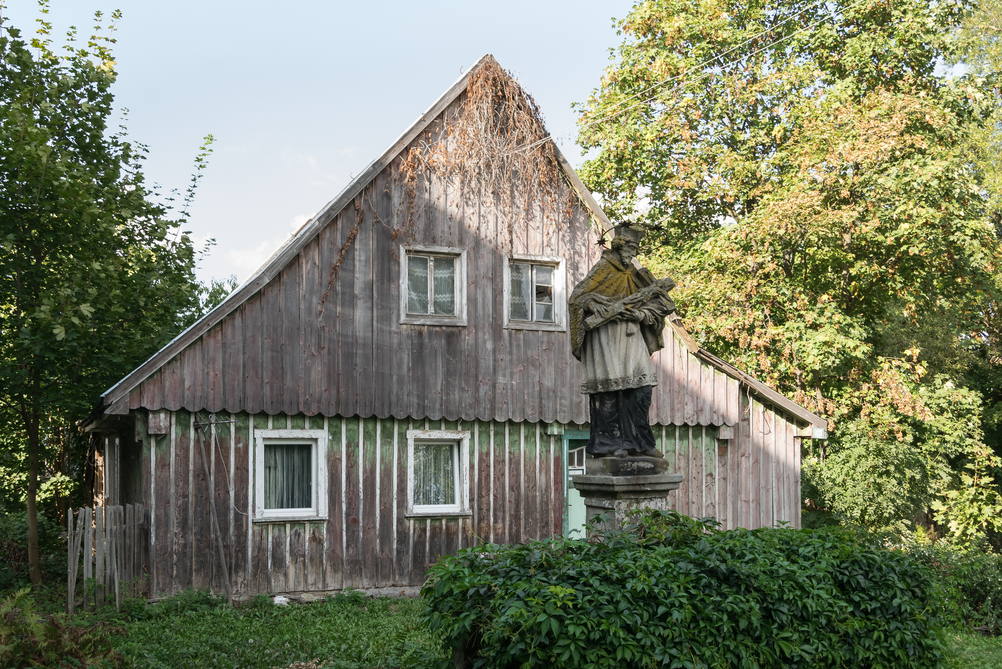 Statue of John of Nepomuk in Stara Łomnica